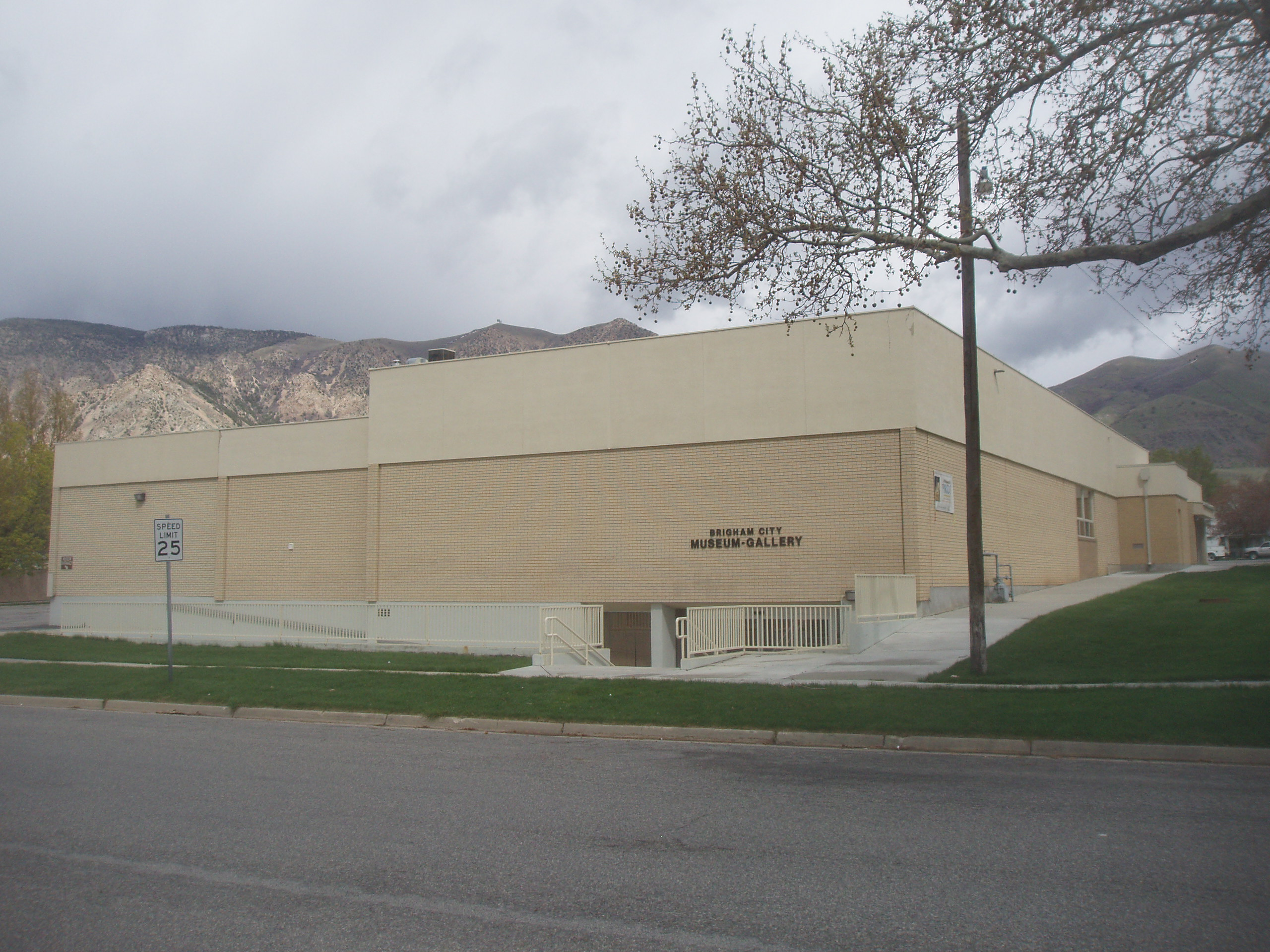 Brigham City Museum-Gallery, a museum in Brigham City, Utah, United States.